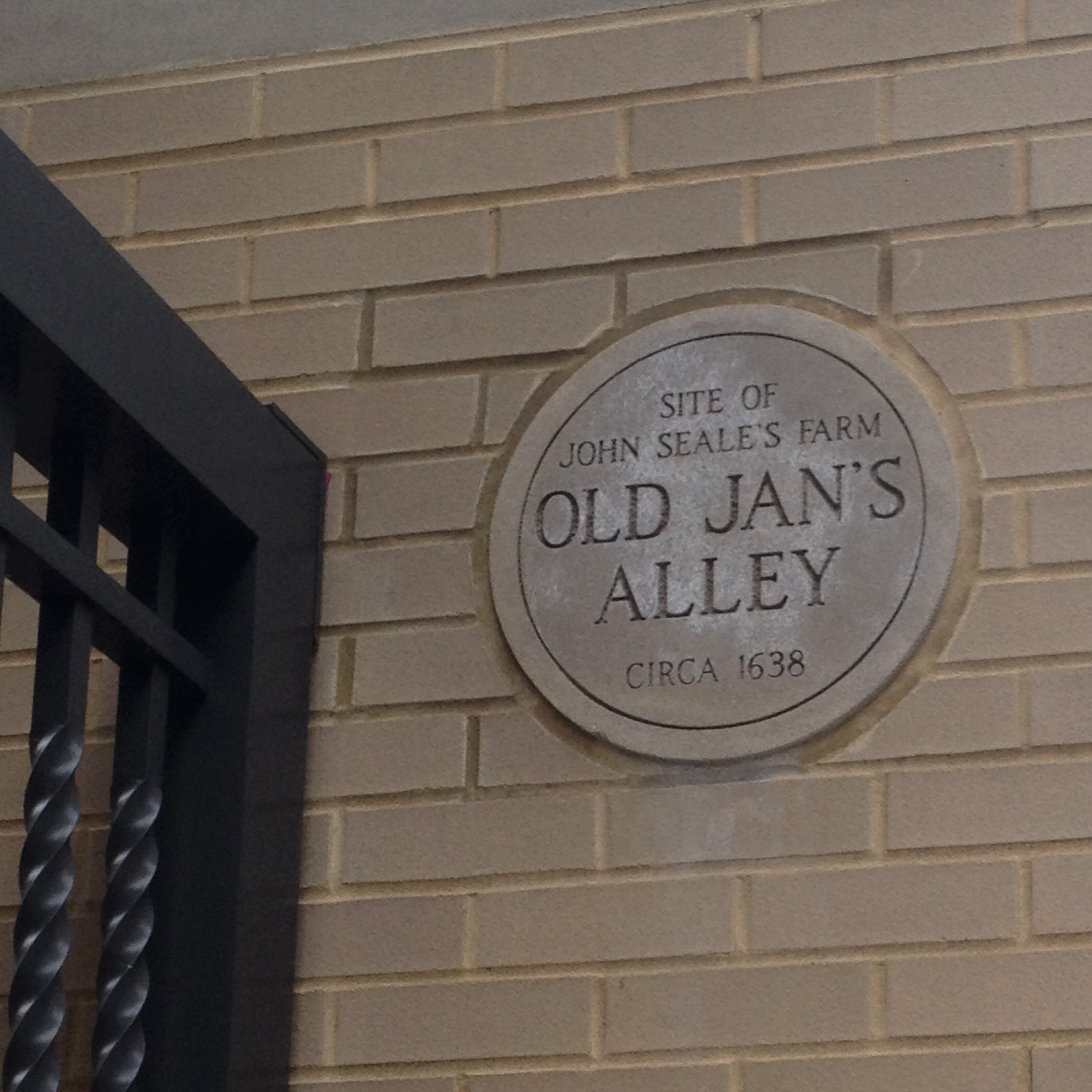 Plaque at 330 Hudson September 2014